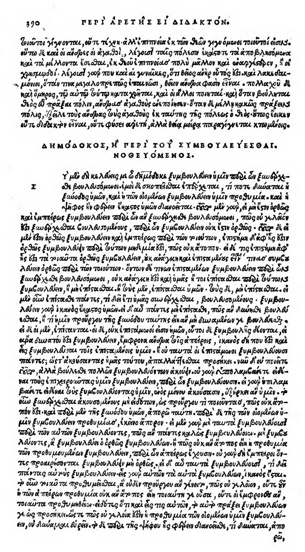 Demodokos beginning. Editio princeps, Venice 1513.